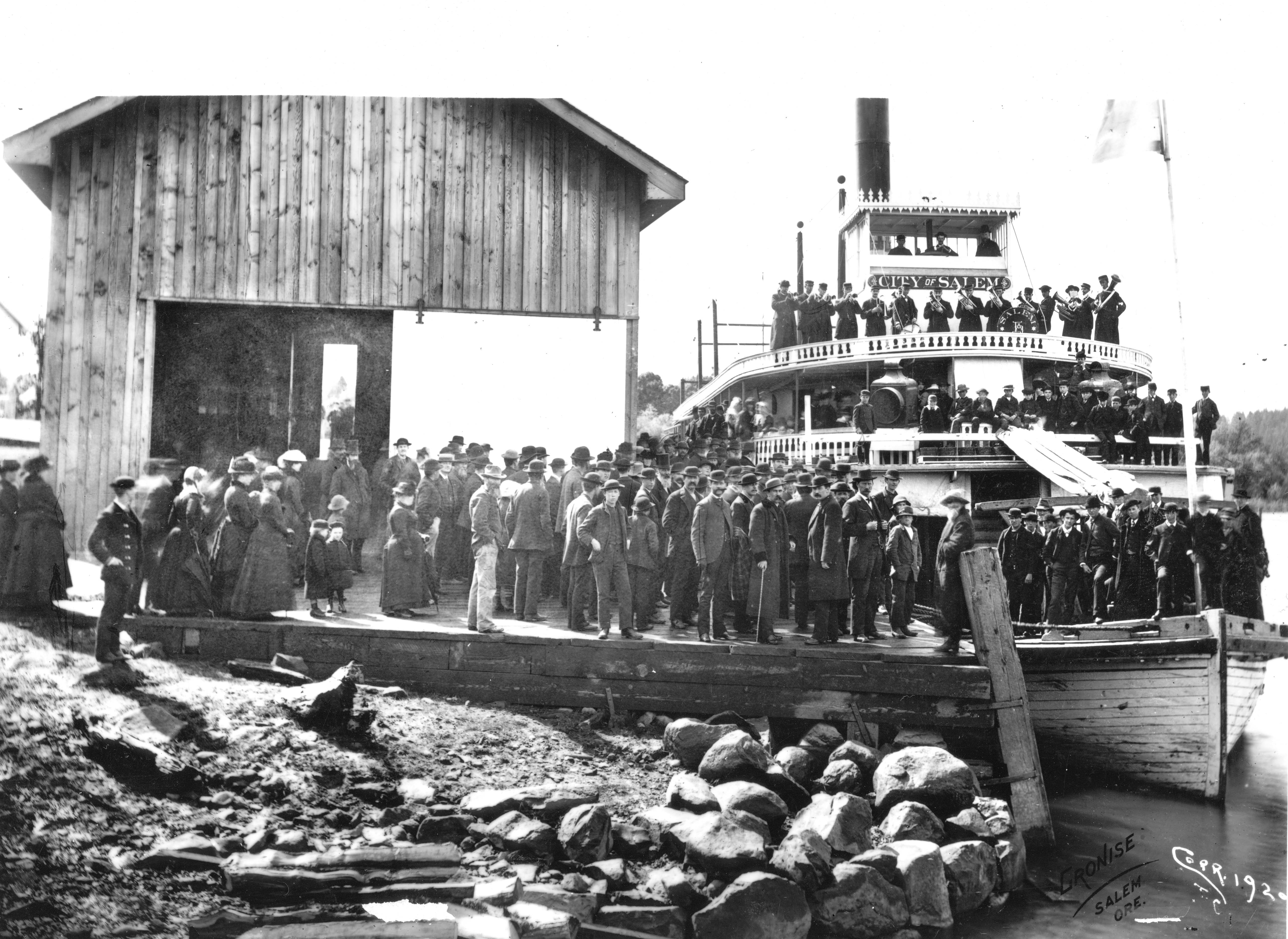 City of Salem sternwheeler, loading passengers somewhere on the Willamette River.